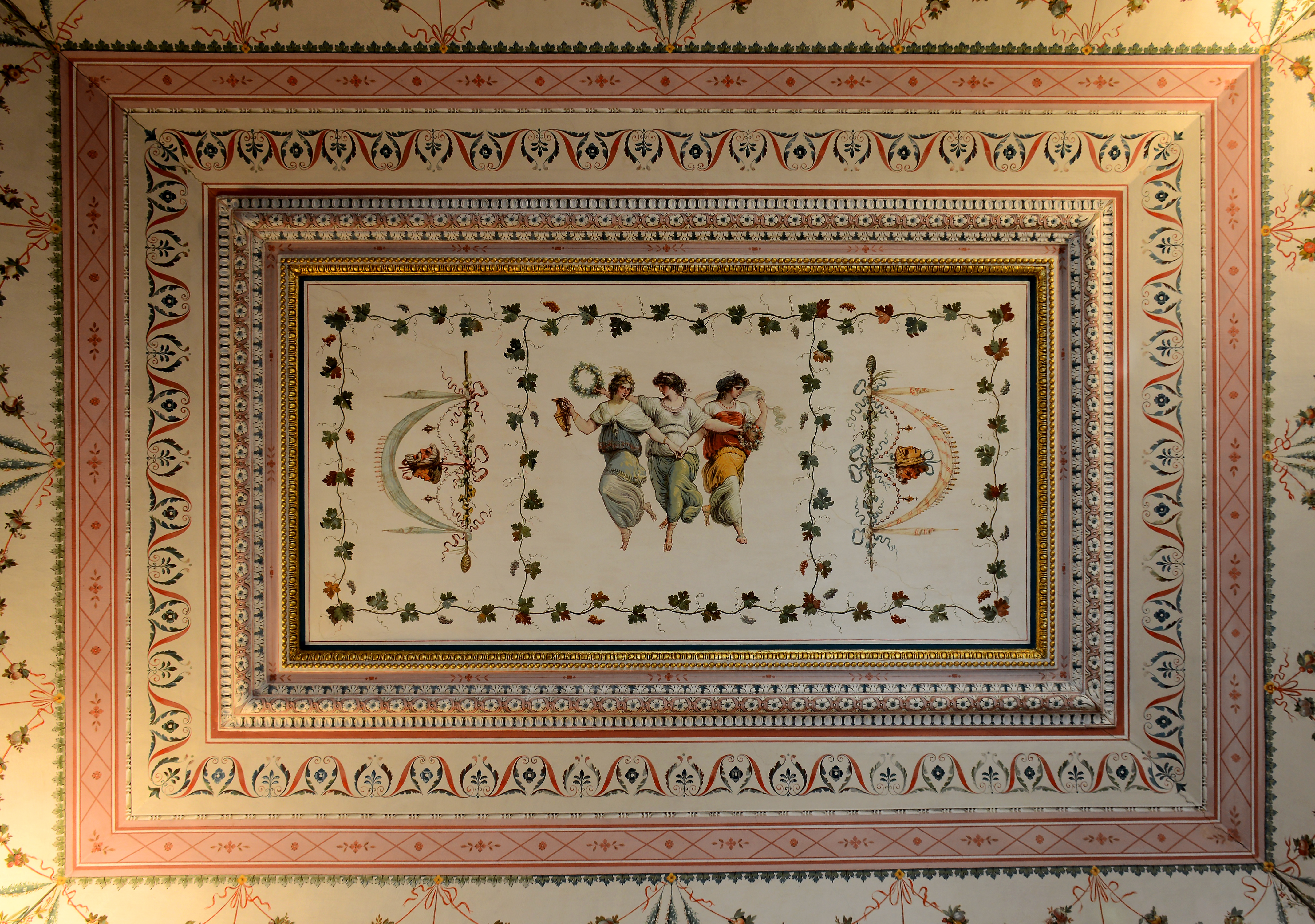 Ceiling "Dance of the Bacchae" in Galleria Borghese (Rome)